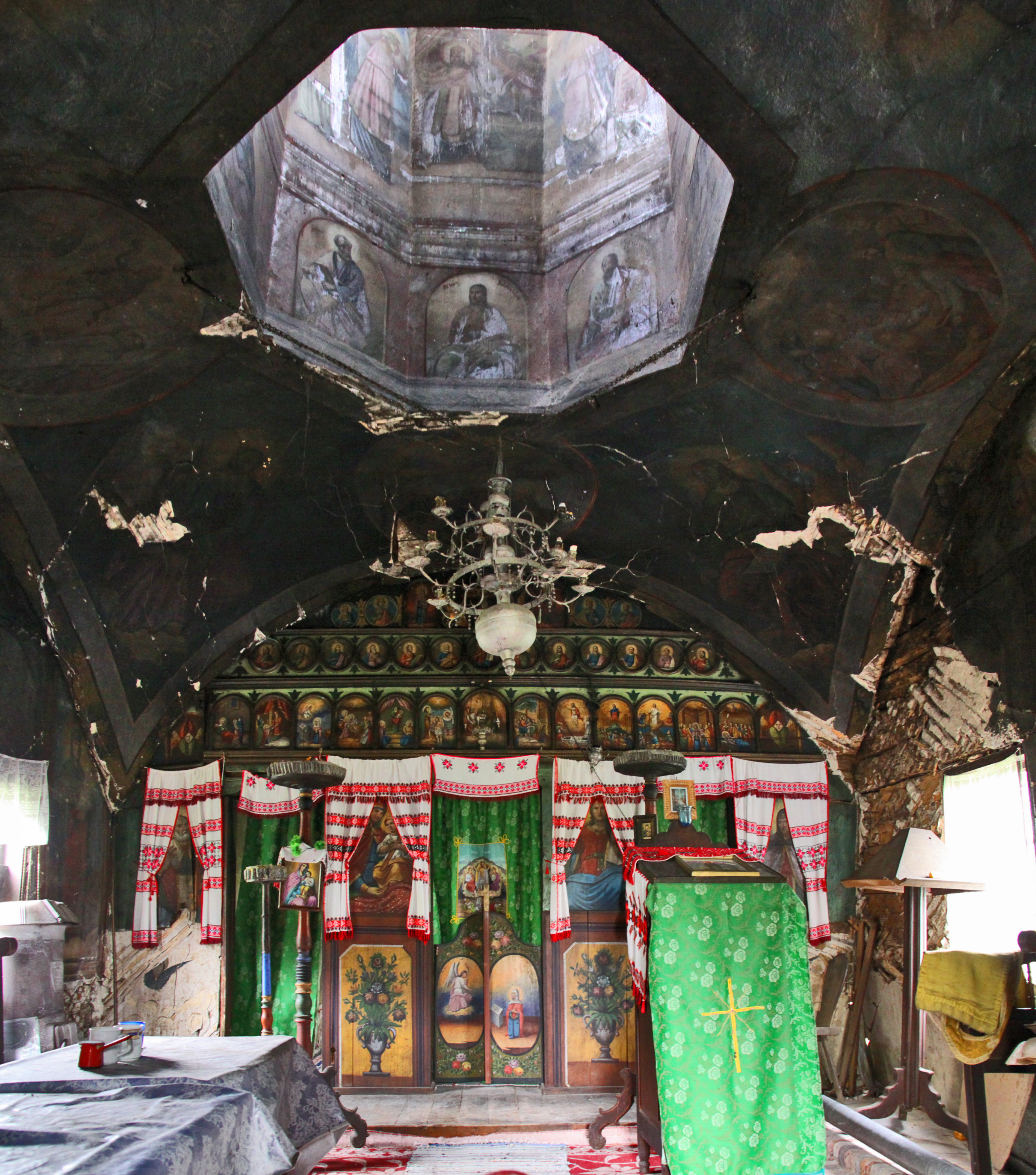 Măgureni, Vâlcea county, Romania: the wooden church, nave, towards East.